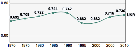 Trends in the Human Development Index for the country, 1970-2010